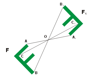 Point reflection